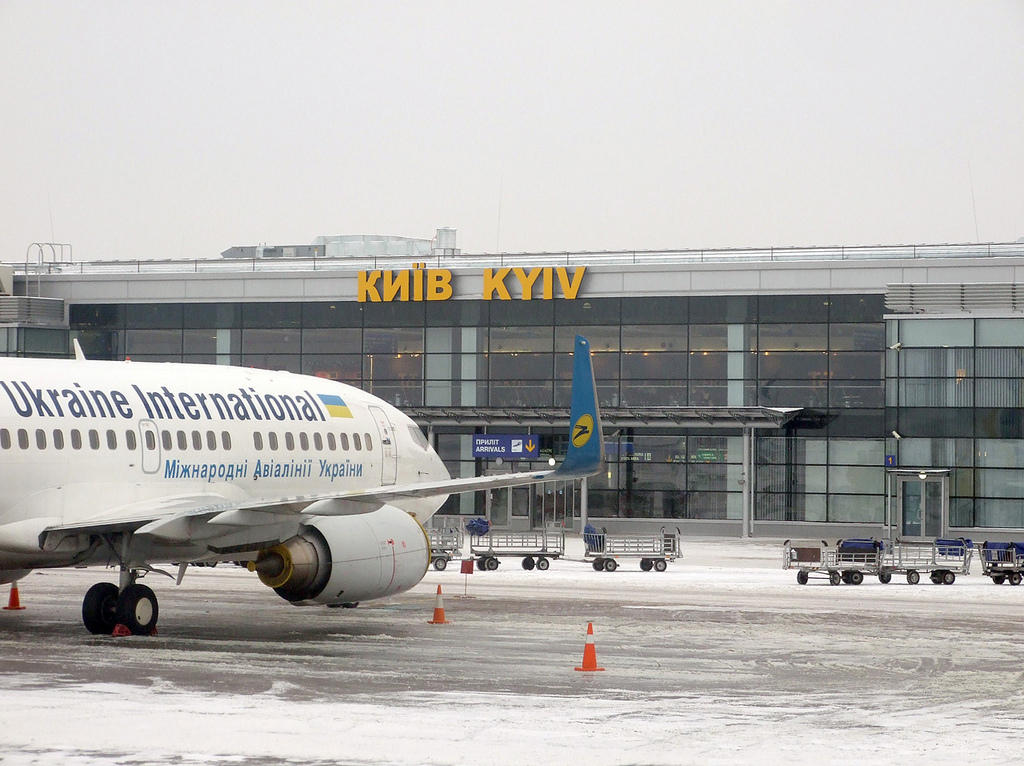 Kyiv Boryspil Intl Airport's Terminal F